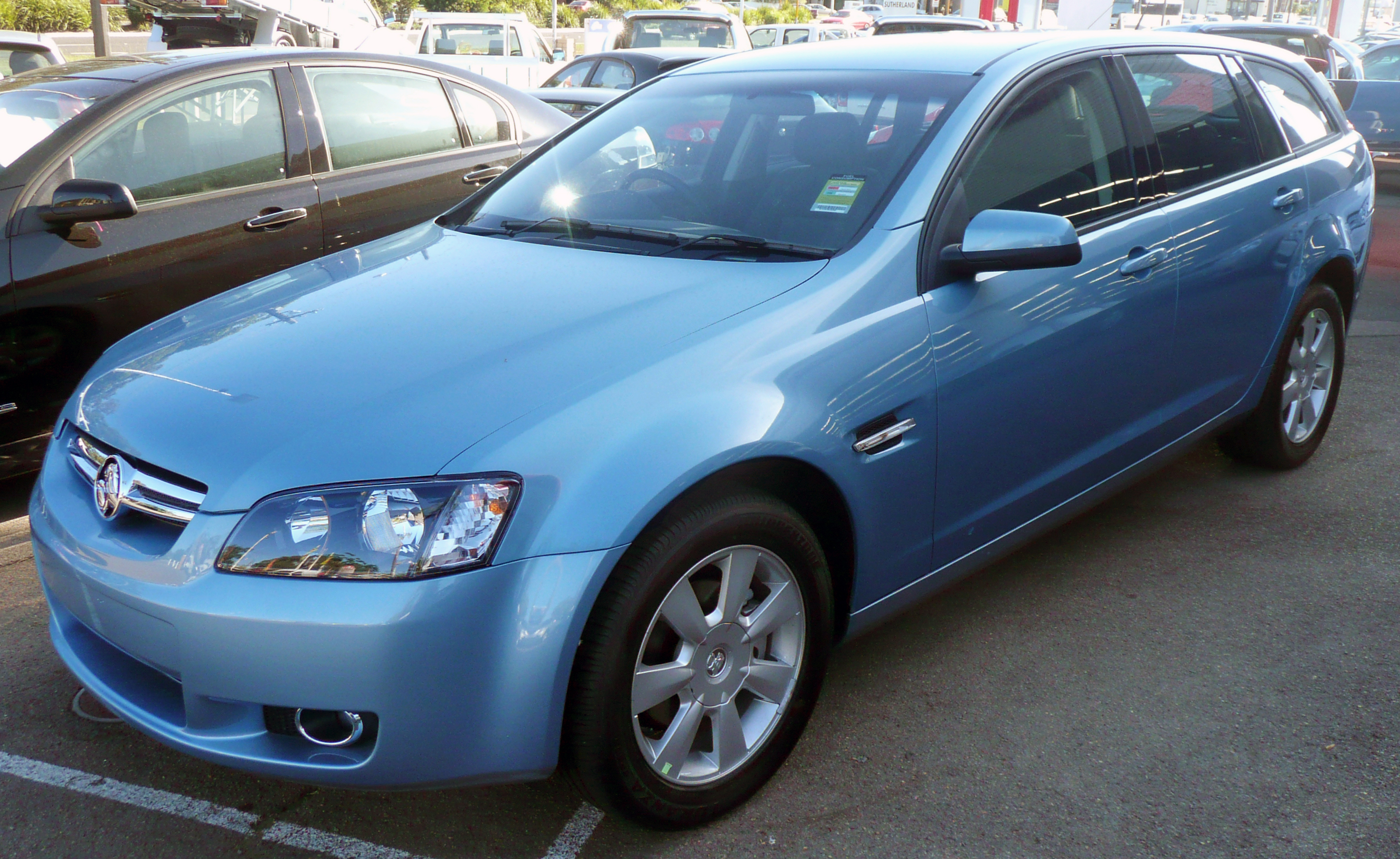 2008 Holden Berlina (VE MY09) Sportwagon station wagon. Photographed at McGrath Sutherland Holden, Kirrawee, New South Wales, Australia.